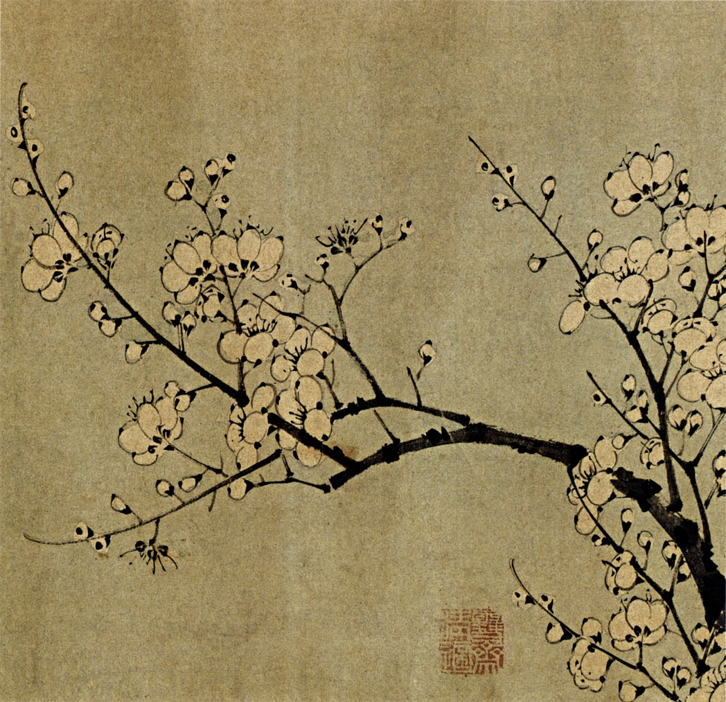 Plum Blossoms, scroll, color on paper, total scroll length 10.95 m., height 29 cm. 0ne of 24 total. Located at the Xiling Society of Seal Arts